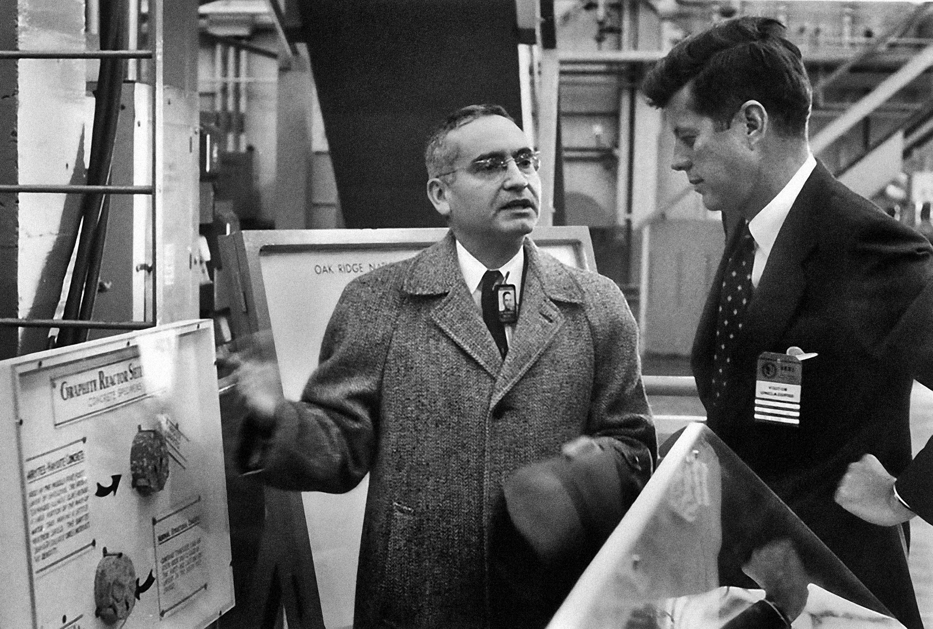 Senator John F. Kennedy listens to Dr. Alvin Weinberg, Director of the Oak Ridge National Laboratory, in Tennessee. Courtesy of Department of Energy. (February 1959)